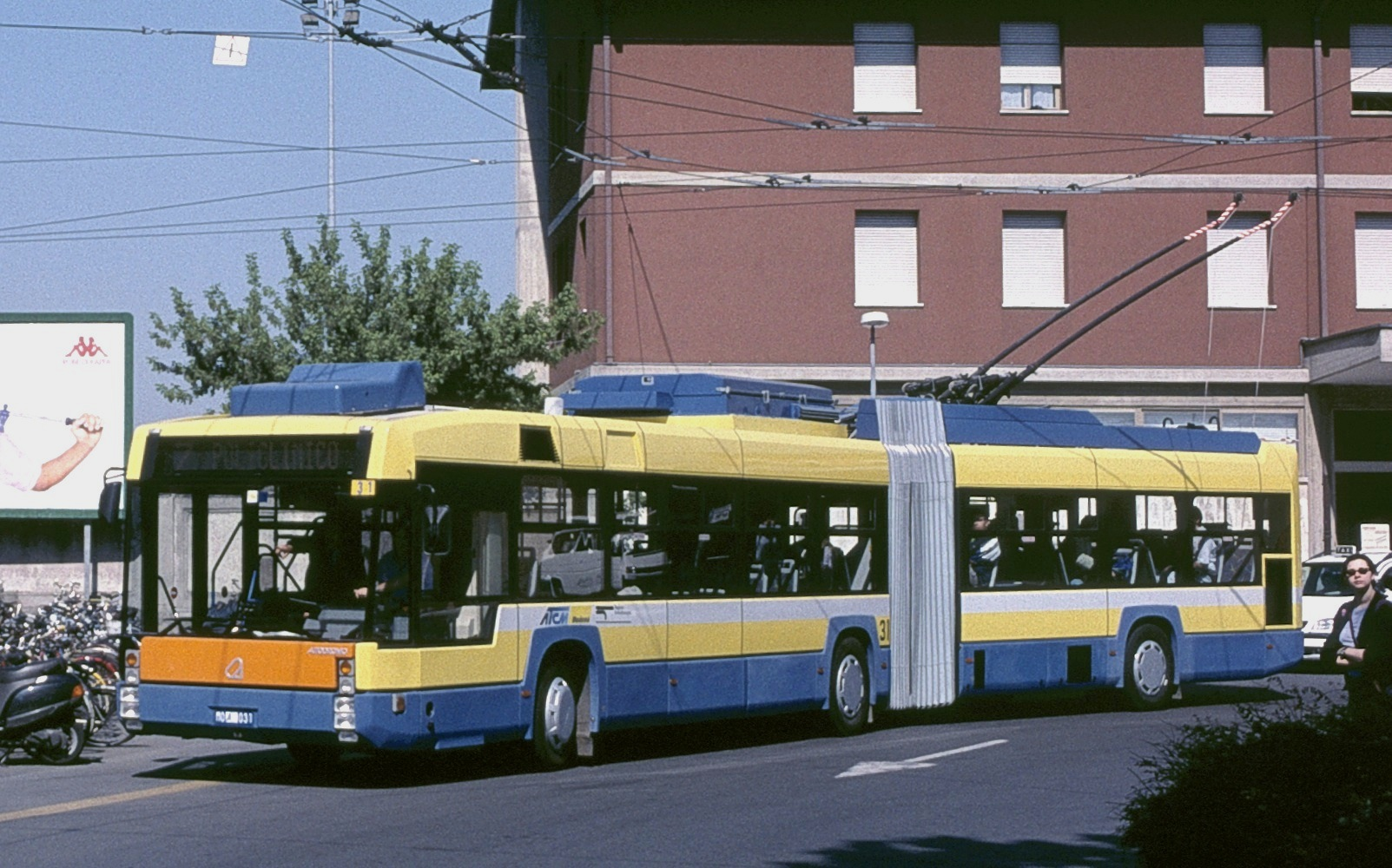 Modena, Italy trolleybus 31, built in 2000 by Carrozzeria Autodromo Modena (on an MAN chassis), departing the main railway station on 15 May 2000, the first day of service for the Autodromo trolleybuses in Modena. It is rounding the southwest corner of the station forecourt and is operating on route 7 to Policlinico.